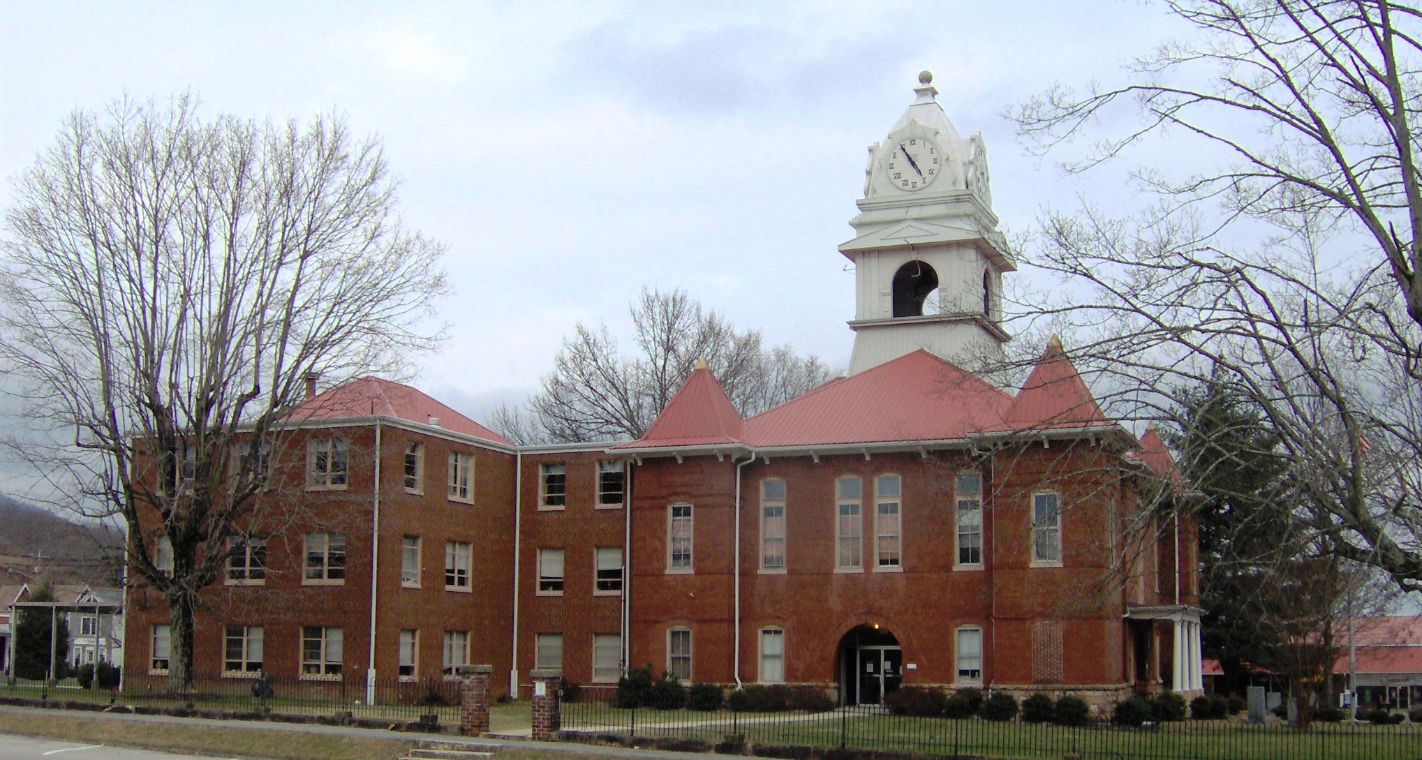 The Morgan County Courthouse in Wartburg, Tennessee, located in the southeastern United States.